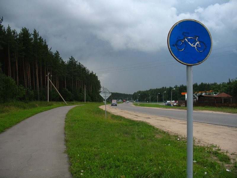 Bikeway from Miensk to Raŭbičy near Baravaja village.